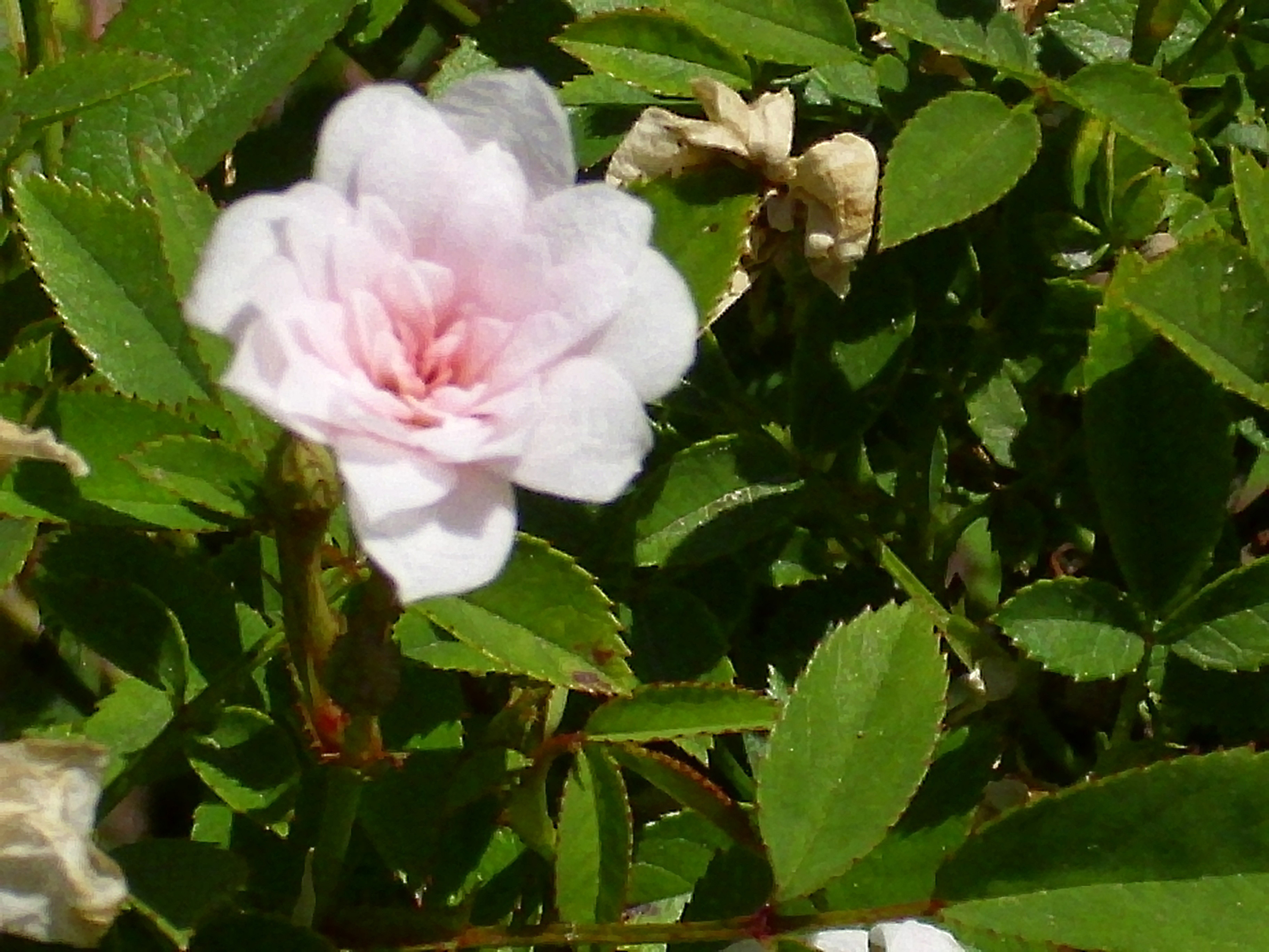 Rosa 'Si' Dot 1957, in the "Rosaleda del Parque del Oeste" in Madrid. Identified by sign. Recognized as the smaller miniature rose on the world